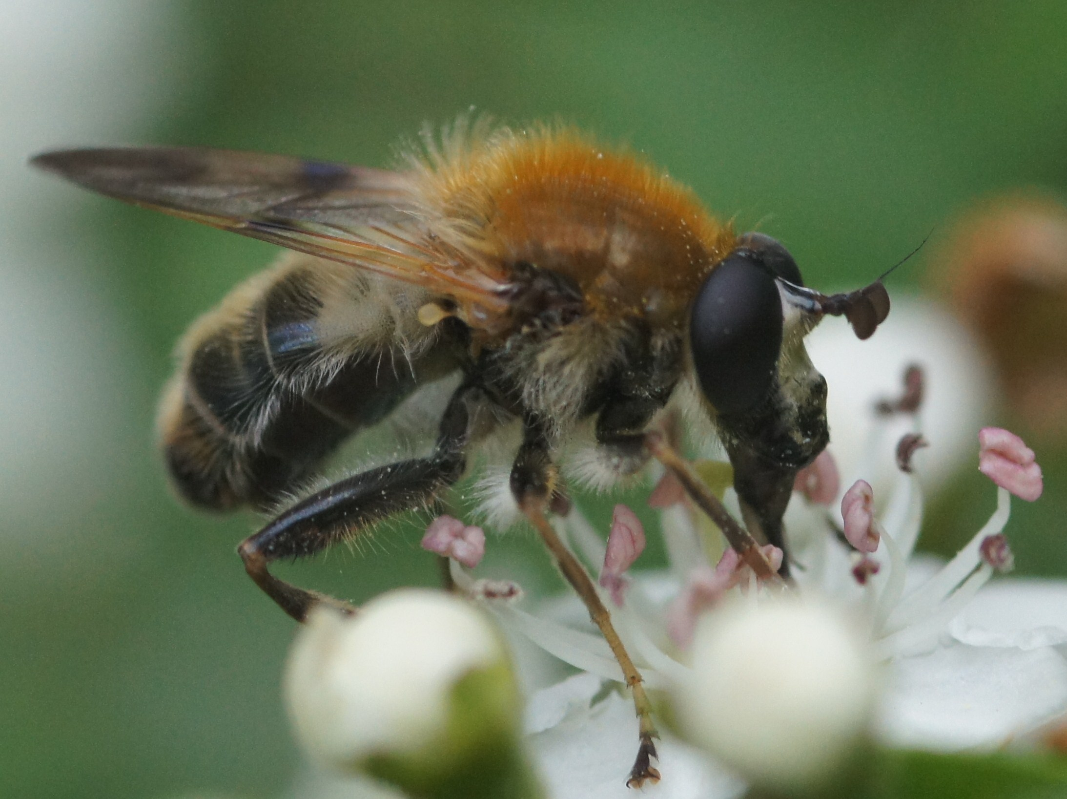 Criorhina asilica (male). Picture taken in Skåne, Sweden.